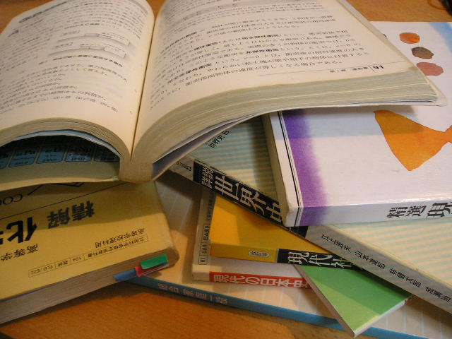 Japanese high school textbooks